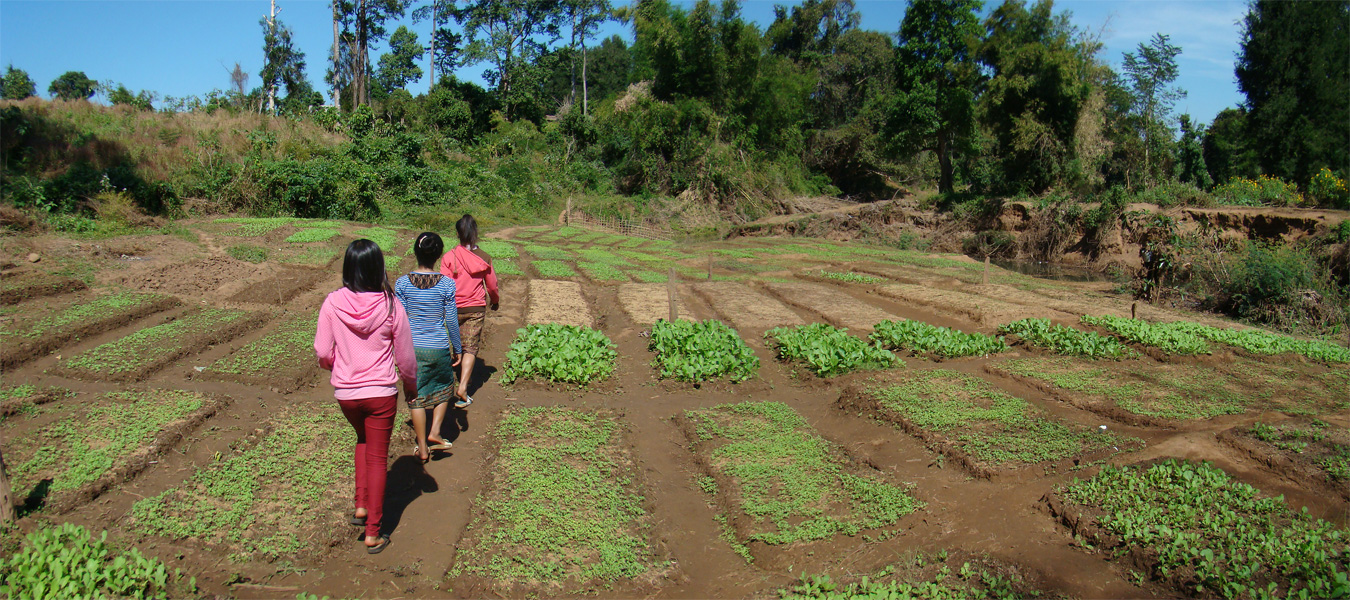 Ban Khiang Tadsoung, an Alak village, Salavan Province, Laos.